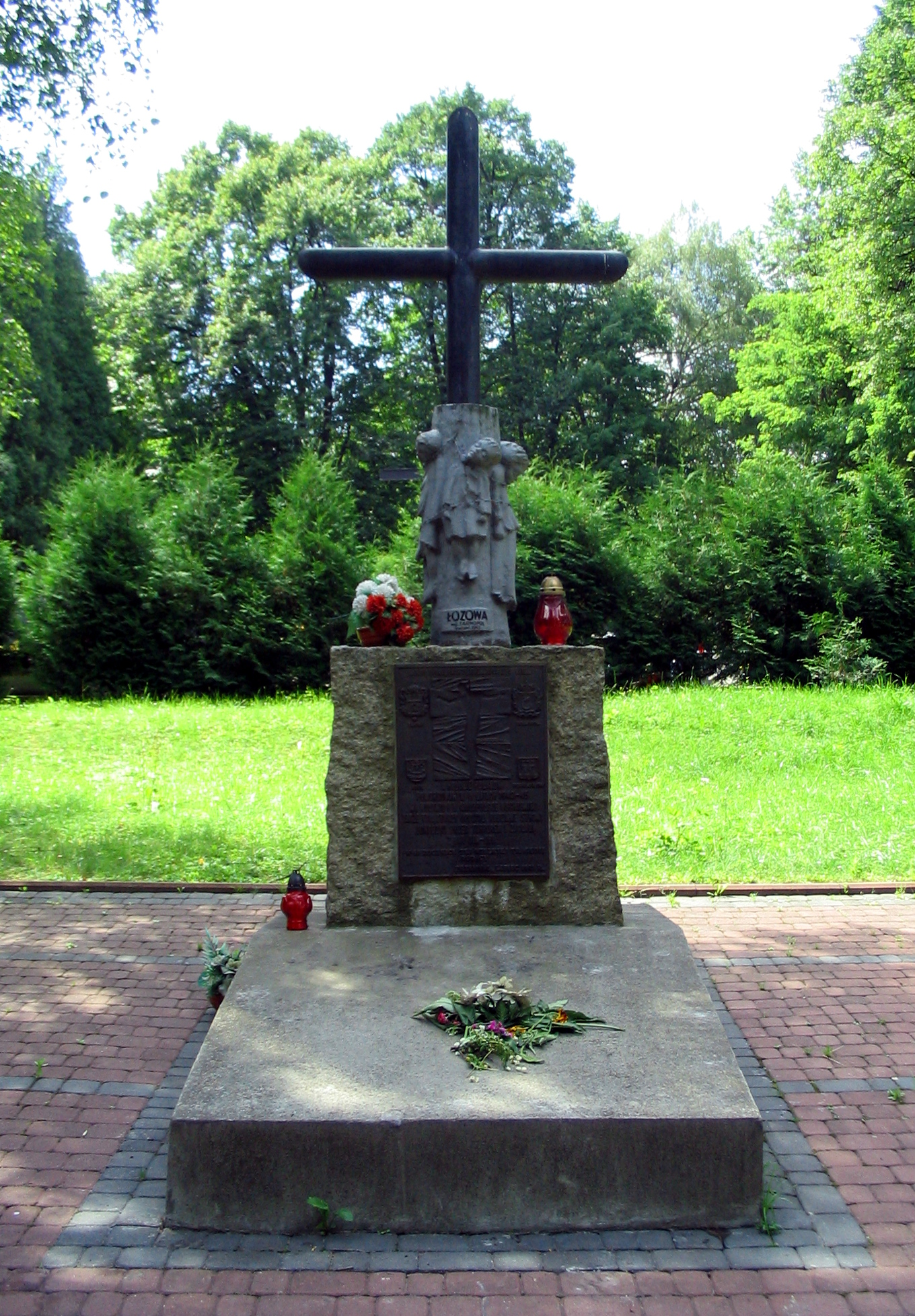 Monument of Poles killed by UPA in 1943-1945 - Przemyśl, Poland